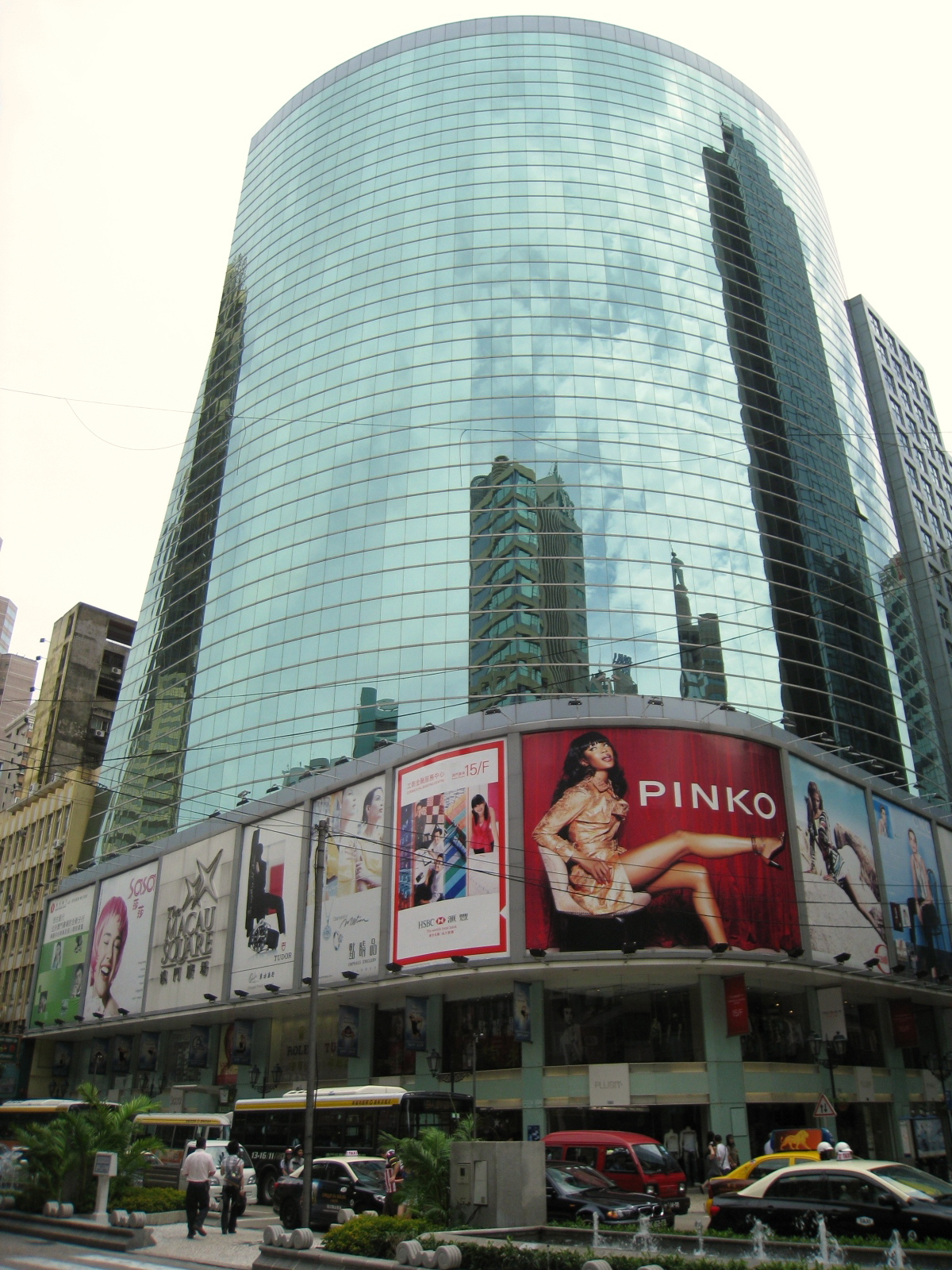 Macao Square